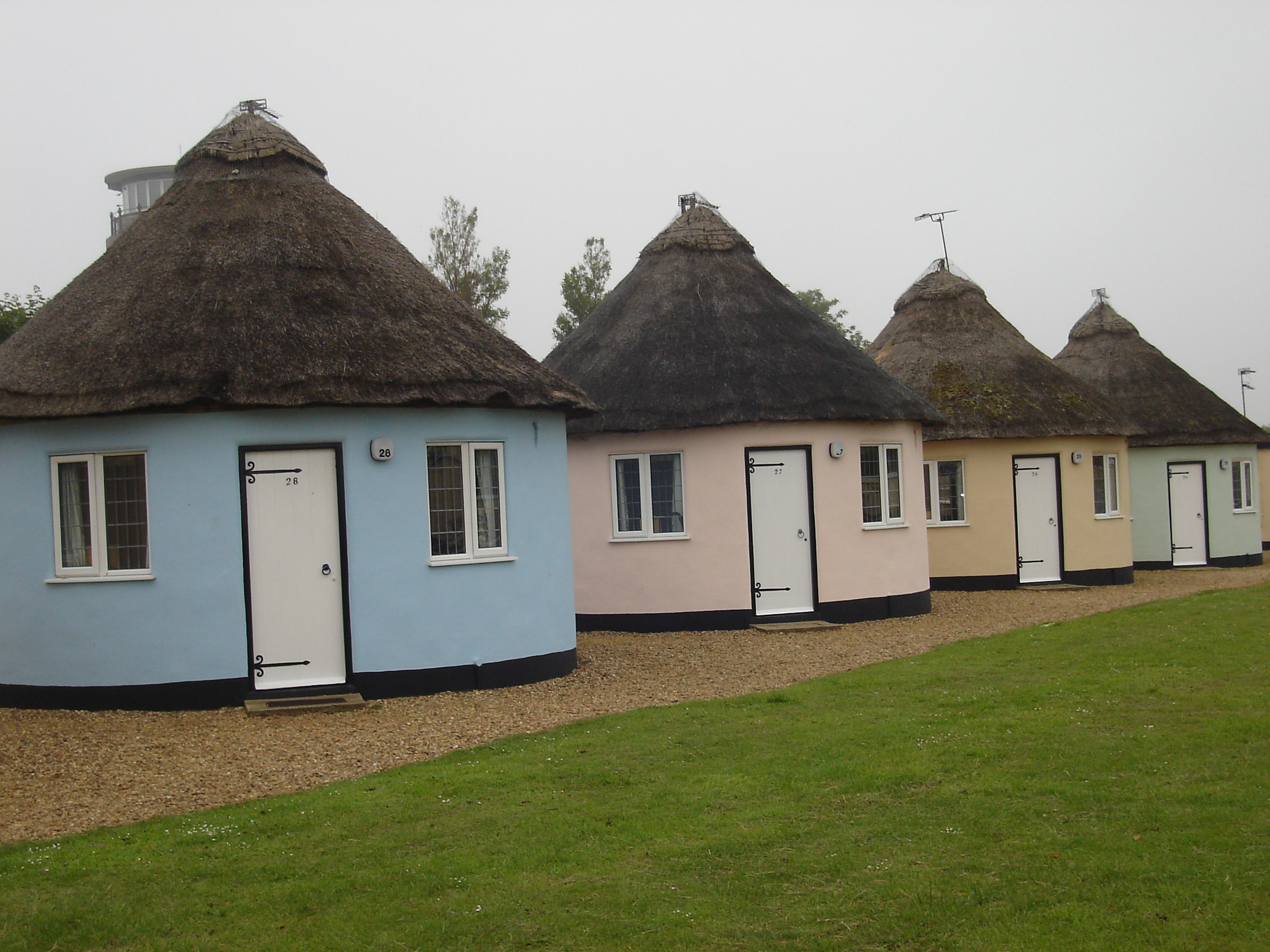 Picture of roundhouses